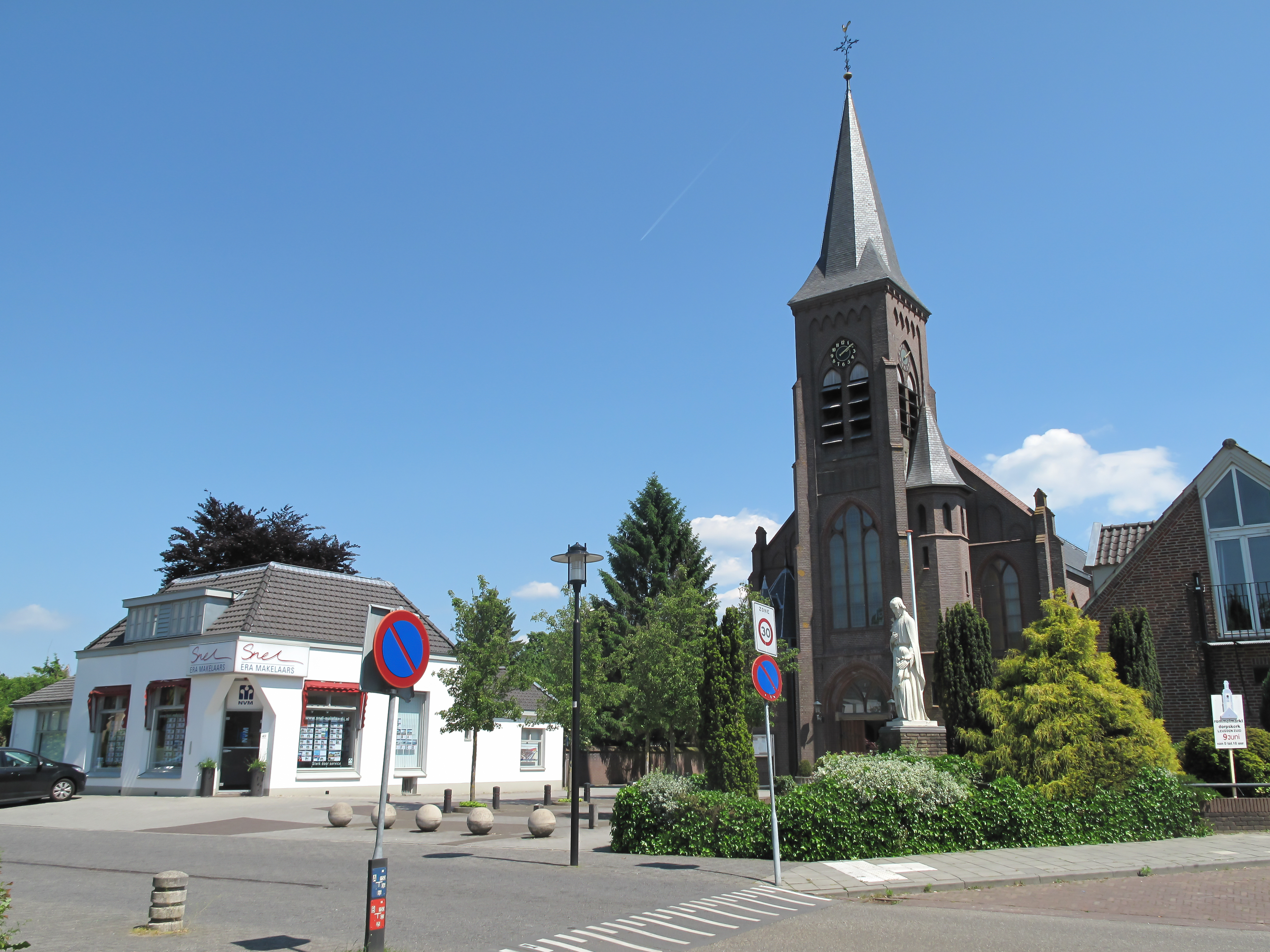 Leusden, church: de Jozefkerk